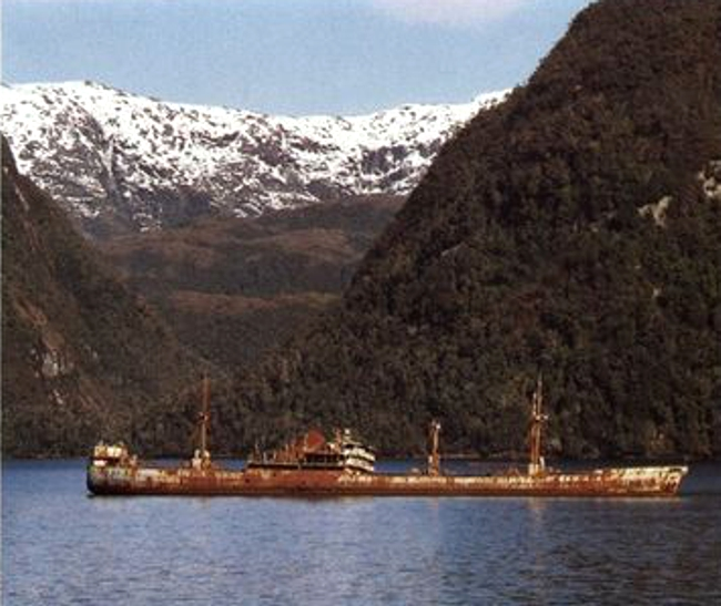 Wreck of the freighter Capitàn Leonidas, in 1989. The ship was deliberately grounded in Messier Channel, Chile, on 7 April 1968 while on a voyage from Santos to Valparaiso with sugar. The captain wanted to sink the ship for an insurance fraud. However, the ship was only grounded. It was originally the Norwegian MV Molda, built in 1937.